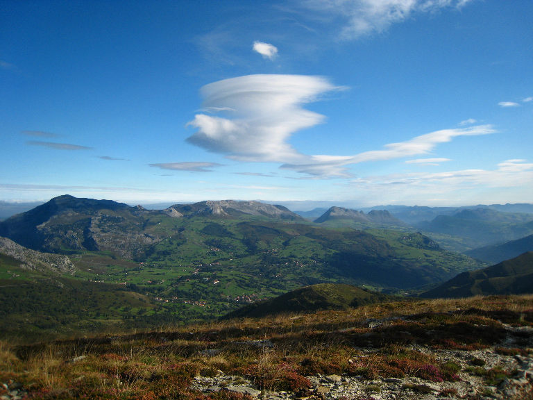 View of Cantabria from the Portillo de la Sia